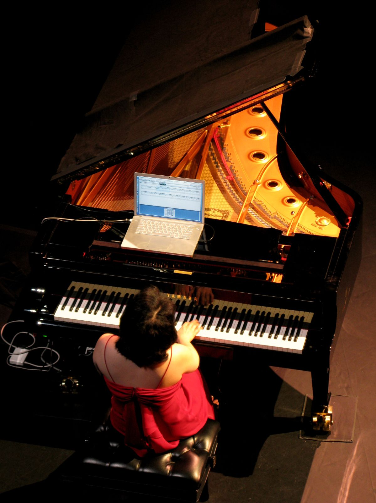 Angelin Chang at Ingenuity